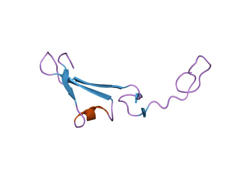 Cartoon representation of the molecular structure of protein registered with 1hre code.